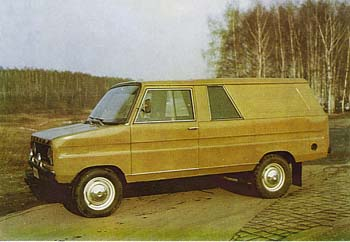 FSR Tarpan 233.